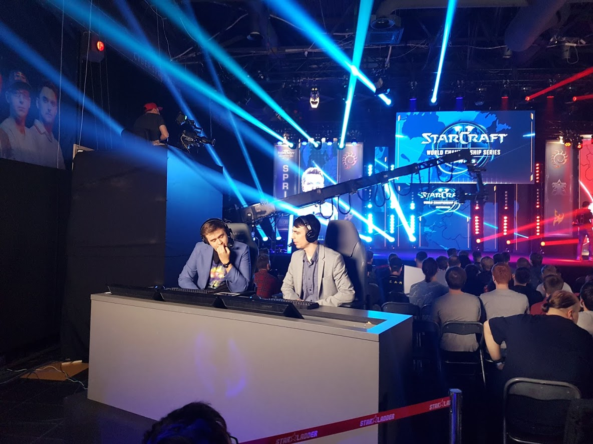 Olsior and Alex007 — Russian casters at 2019 WCS Spring